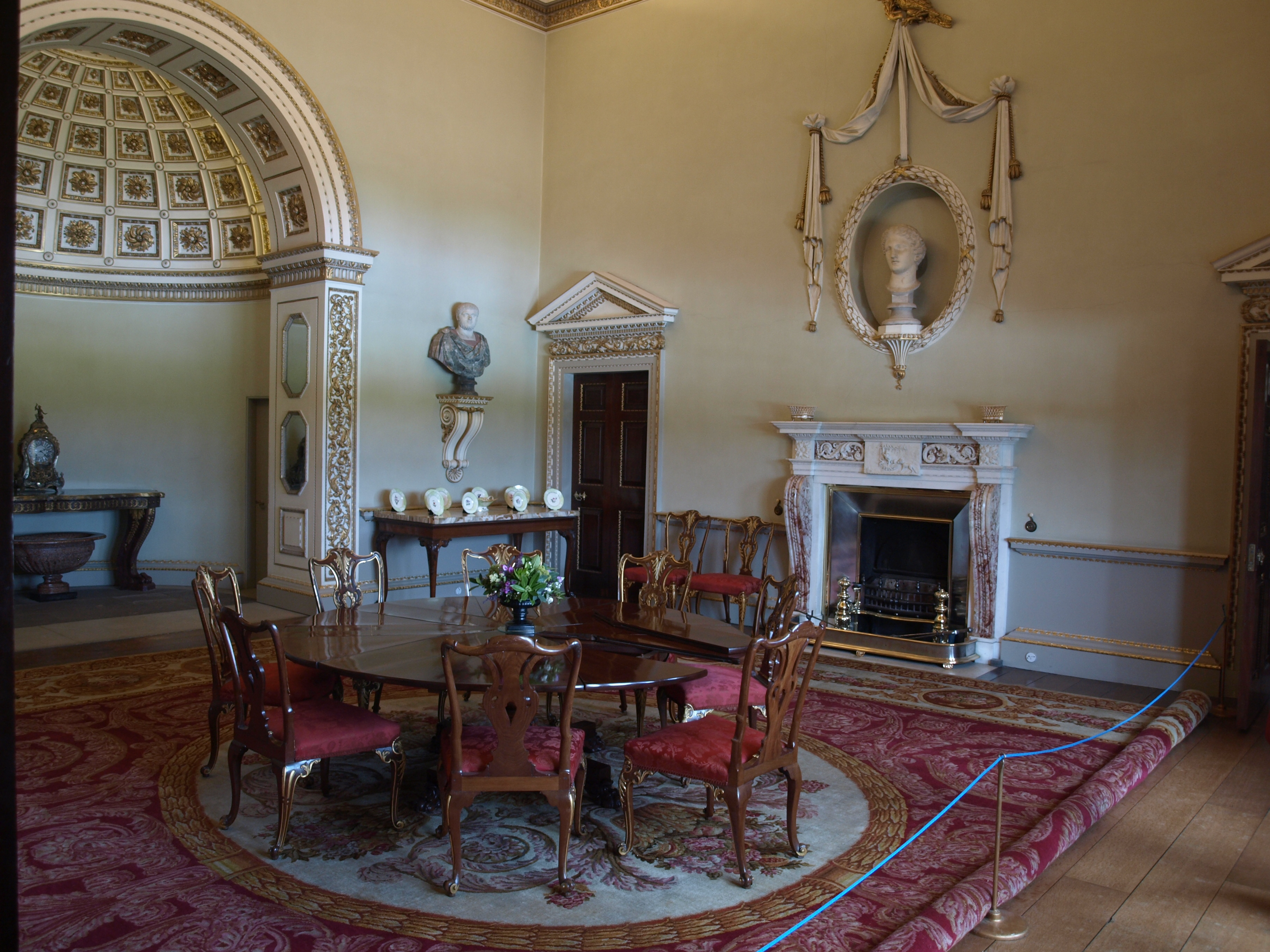 Dining Room, Holkham Hall, Norfolk, England